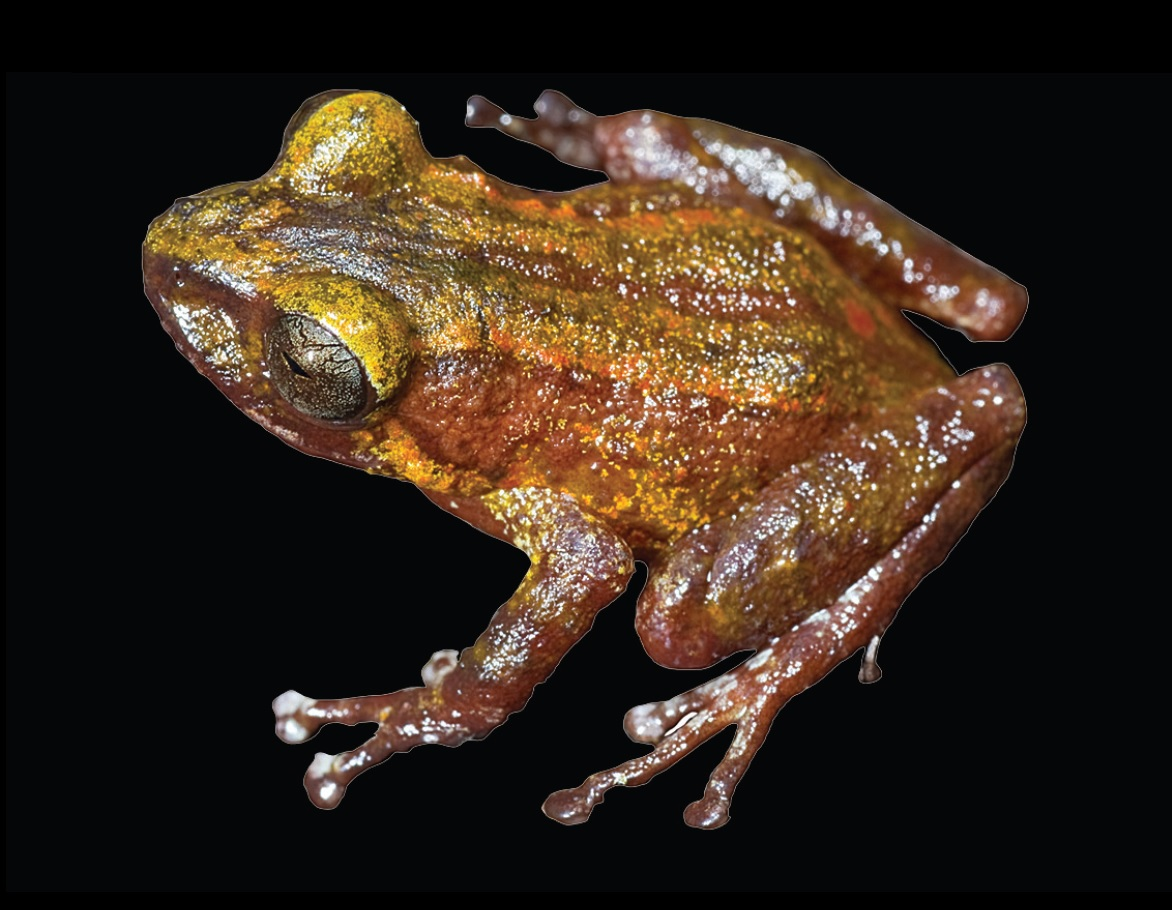 Pristimantis imthurni in life. Dorsolateral view of the male holotype specimen